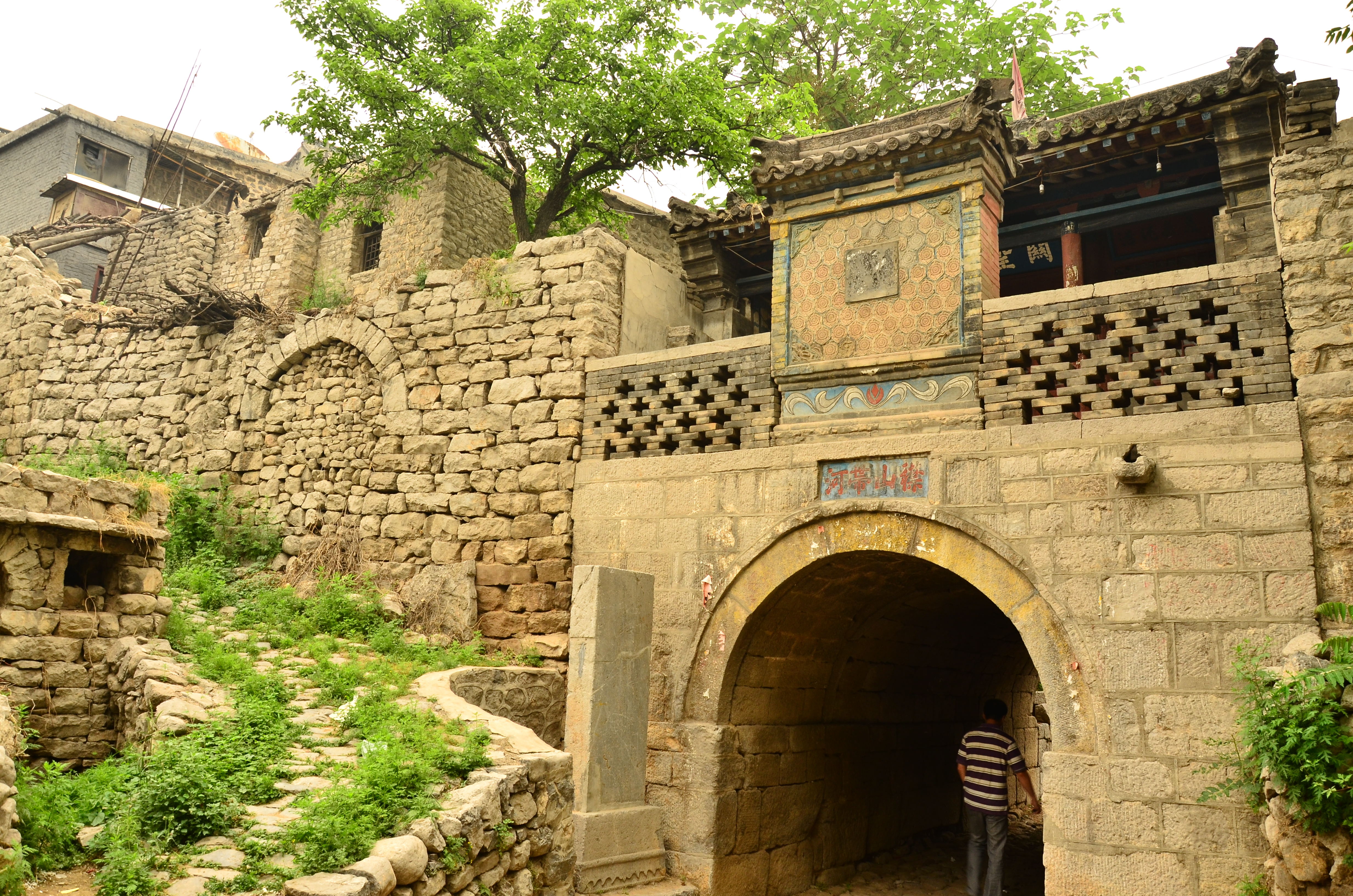 The famous ancient building in Jingxing,Hebei,China.